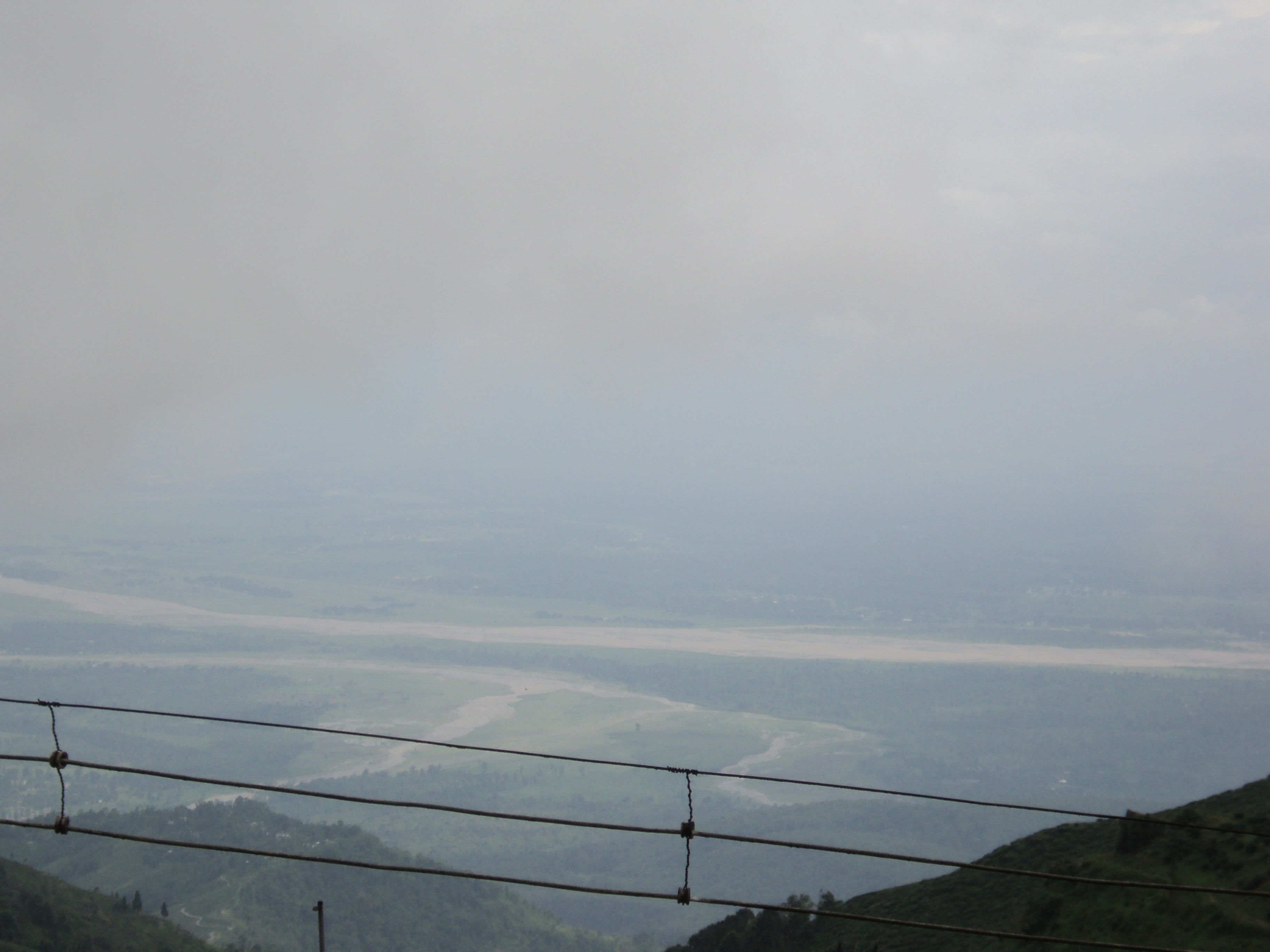 Teesta joins Rangeet